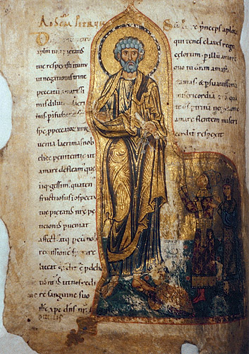 St. Peter on a mid-11th-century Kievan miniature from Queen Gertrude's Prayer Book